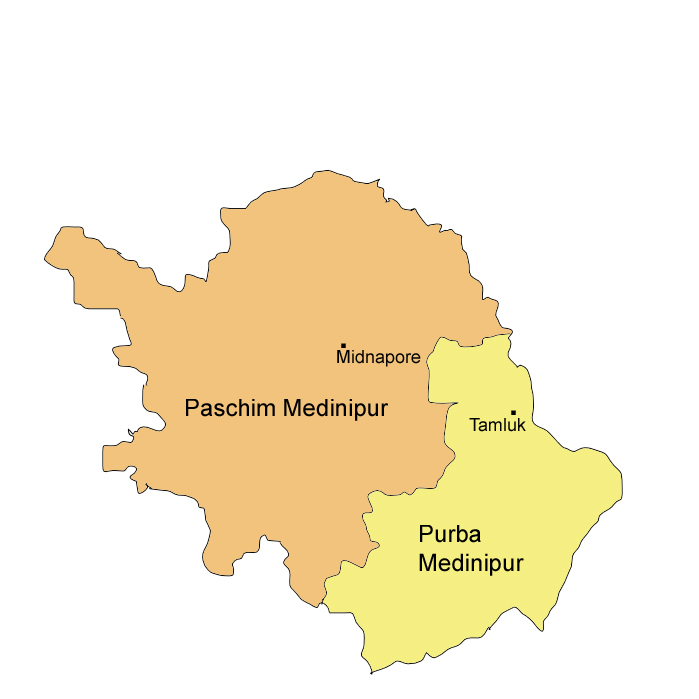 A map of the bifurcated Midnapore District